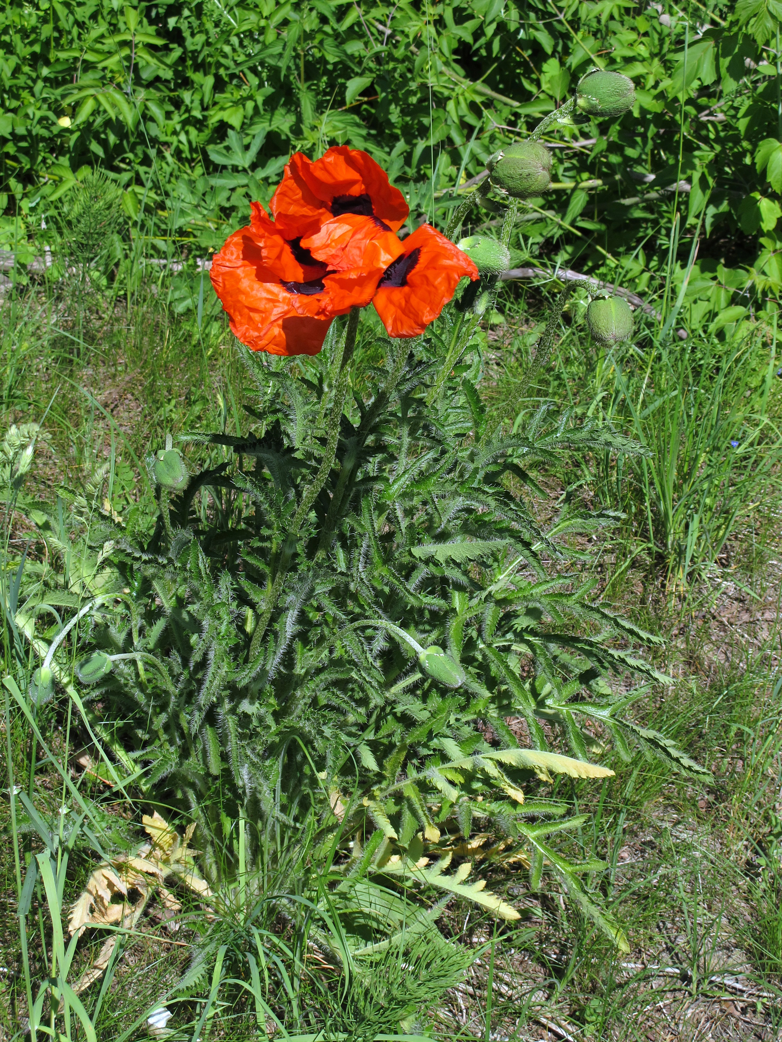 Oriental poppy (Papaver orientale) by a road near the Podsupraśl village, podlaskie, Poland